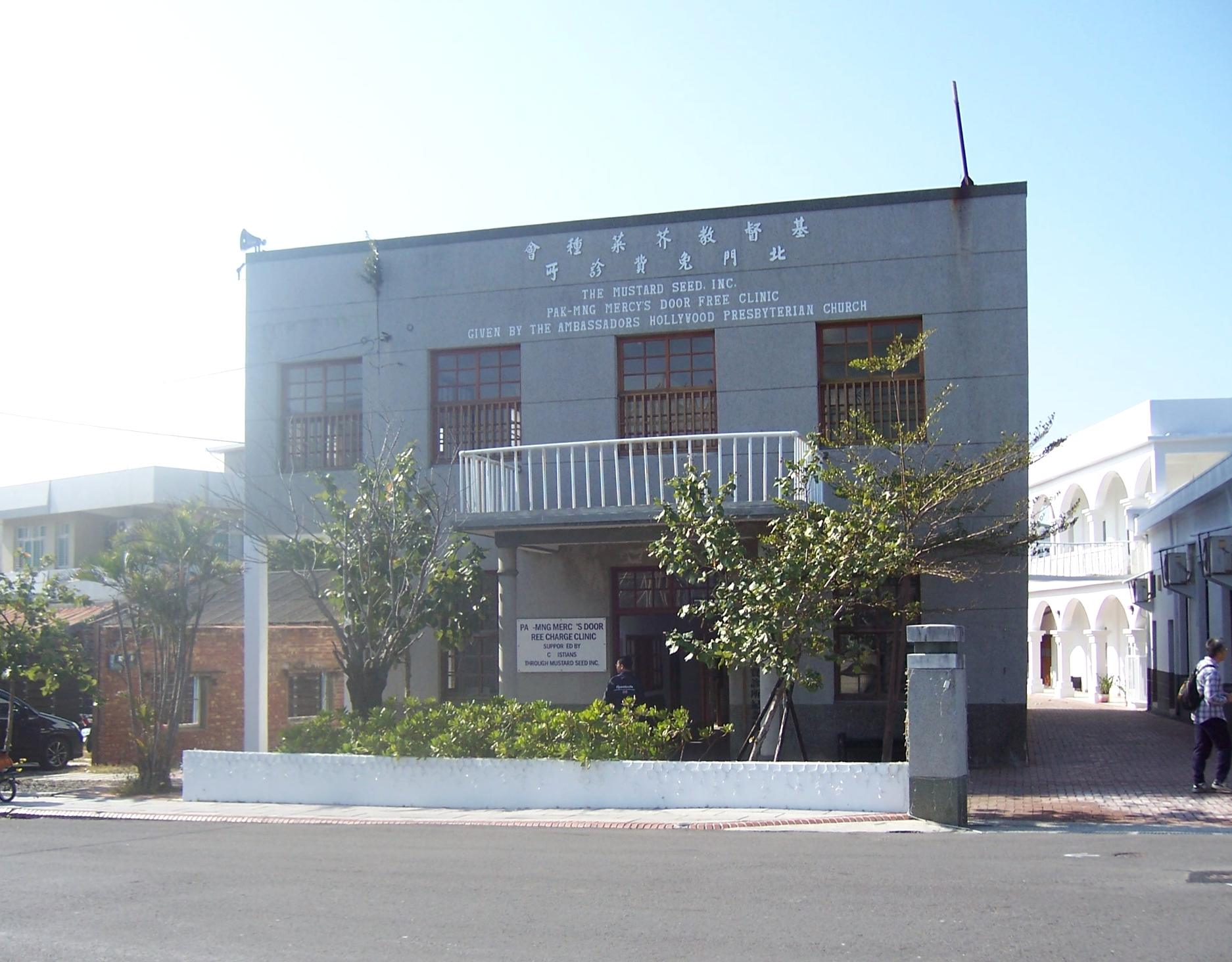 The Mustard Seed. Inc. Pak-mng(Beimen) mercys door free clinic, which is a part of Taiwan Black-foot Disease Socio-Medical Service Memorial Park now.